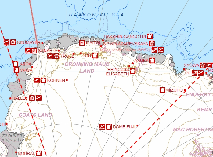 Map of Dronning Maud Land with research stations